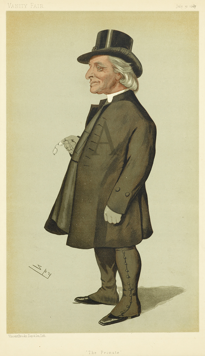 Caricature of The Rt. Hon. Edward White Benson. Caption read "The Primate".